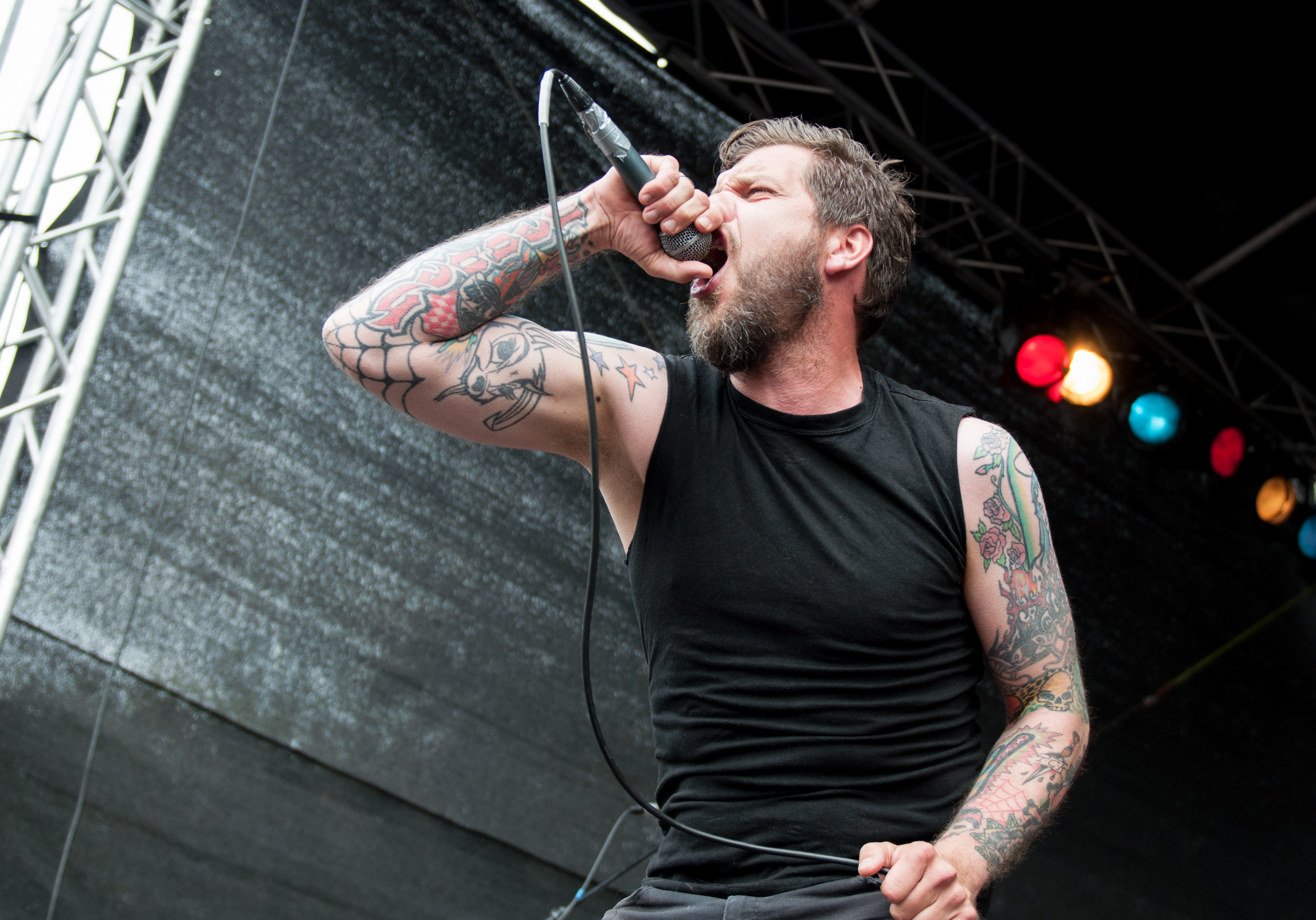 Smoke Blow at Vainstream Rockfest 2014